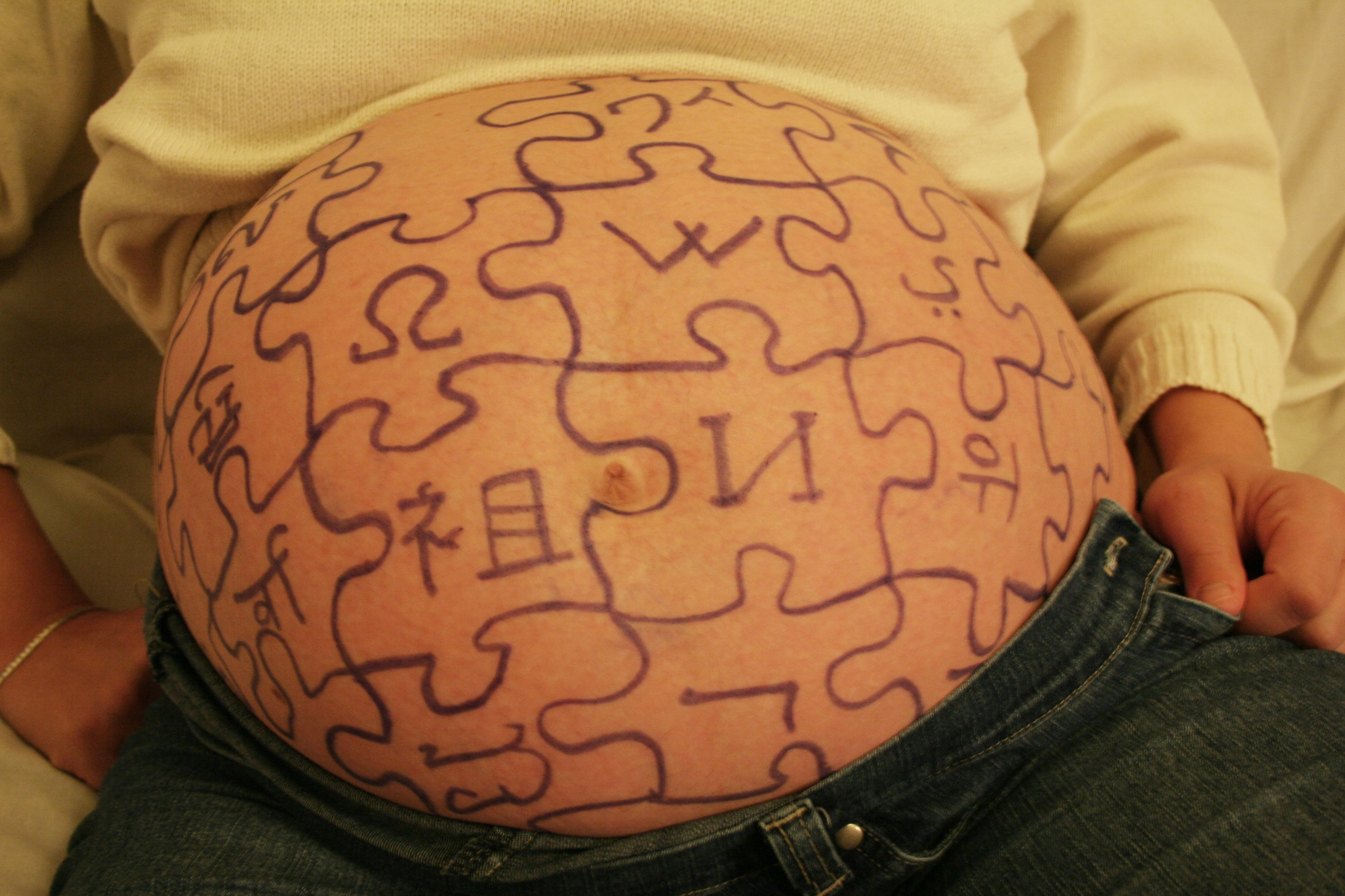 I love Wikipedia, because it is devoted to the future.